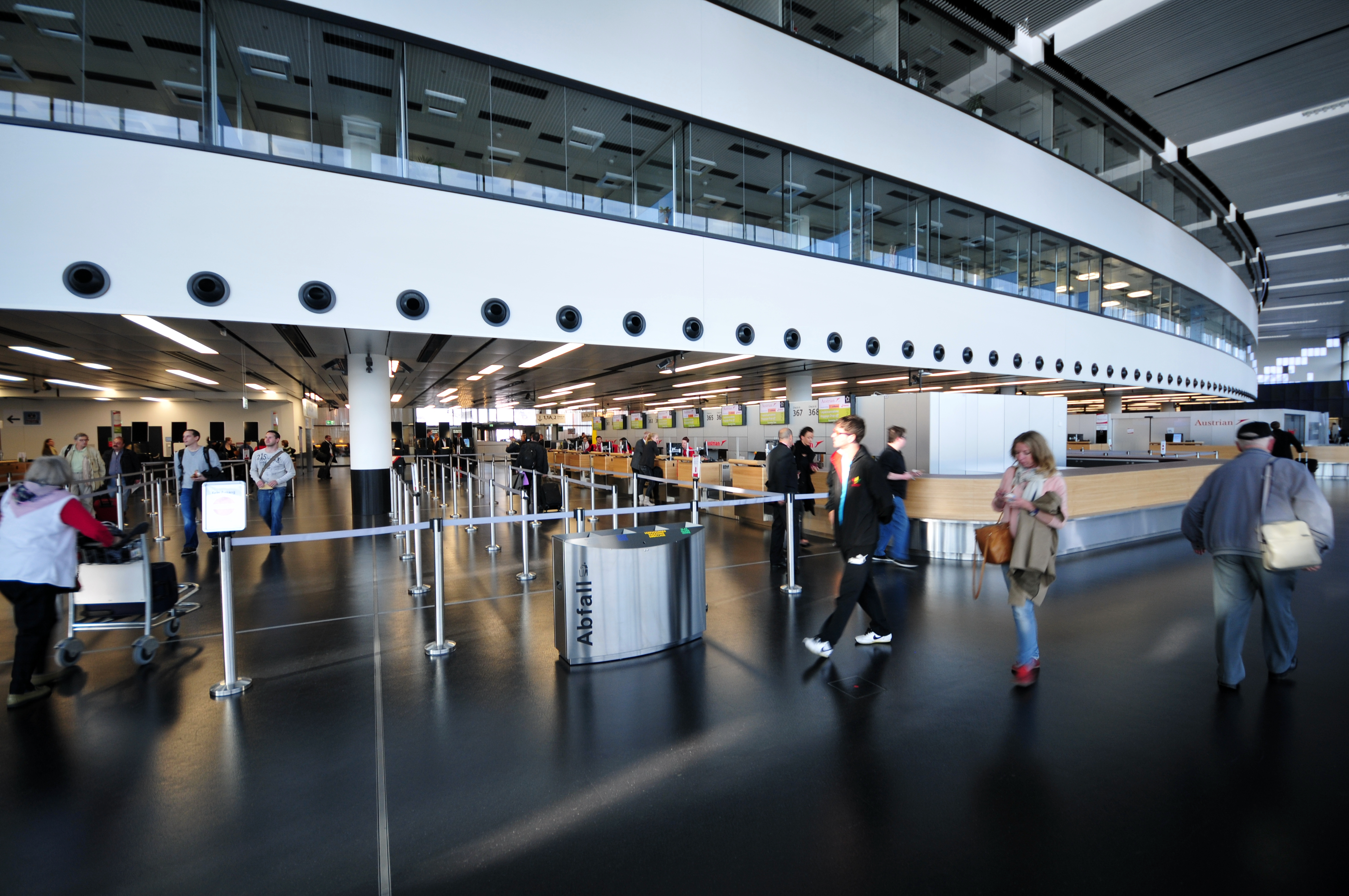 Departures floor with check in area in terminal 3 of Vienna International Airport